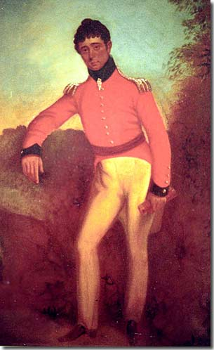 Colonel William Light - self portrait This image was painted by William Light c1815 Category:Images of Adelaide